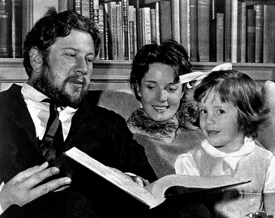 British actor, director, scriptwriter and producer Peter Ustinov reading a book with his wife and his daughter. 1950s.